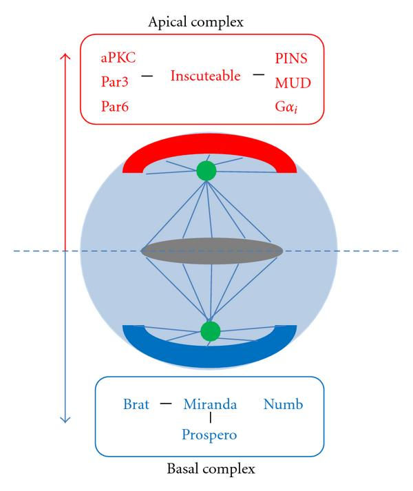 Asymmetric cell division in Drosophila neuroblasts. Apical (red) and basal (blue) proteins are asymmetrically segregated at cortical ends of the neuroblast at the time of mitosis. Members of the apical complex are involved in the asymmetric partitioning of basal determinants, in establishing cell polarity and in the correct orientation of the mitotic spindle. The apical complex consisting of aPKC, Par3, and Par6 is linked to the Gαi-PINS-MUD complex via Inscuteable. The basal complex consists of the cell-fate determinants, Miranda, Prospero, Brat, and Numb.